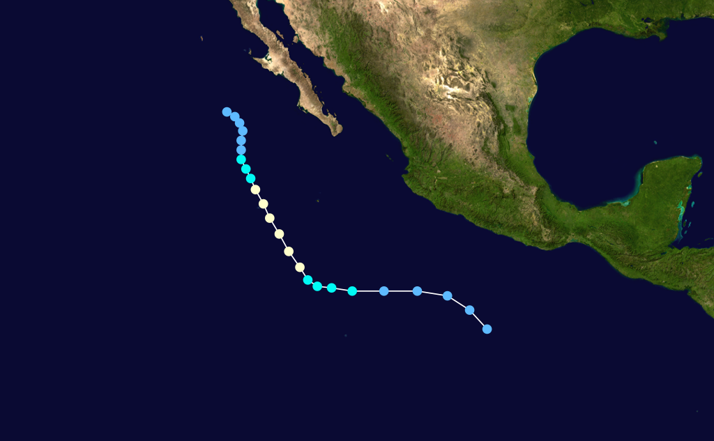 Hurricane Boris (1990) track. Uses the color scheme from the Saffir-Simpson Hurricane Scale.